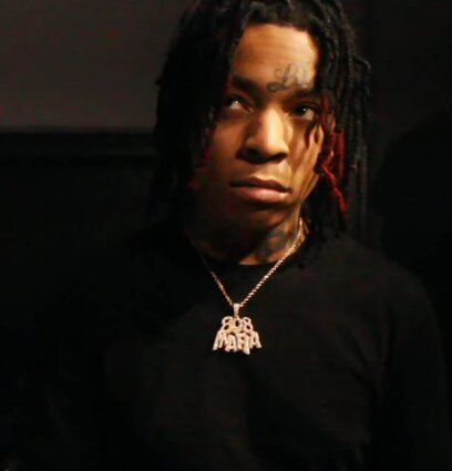 Lil Gotit in June 2019